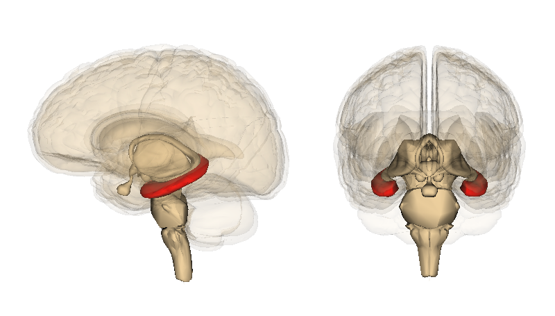 hippocampus. Images are from Anatomography maintained by Life Science Databases(LSDB).